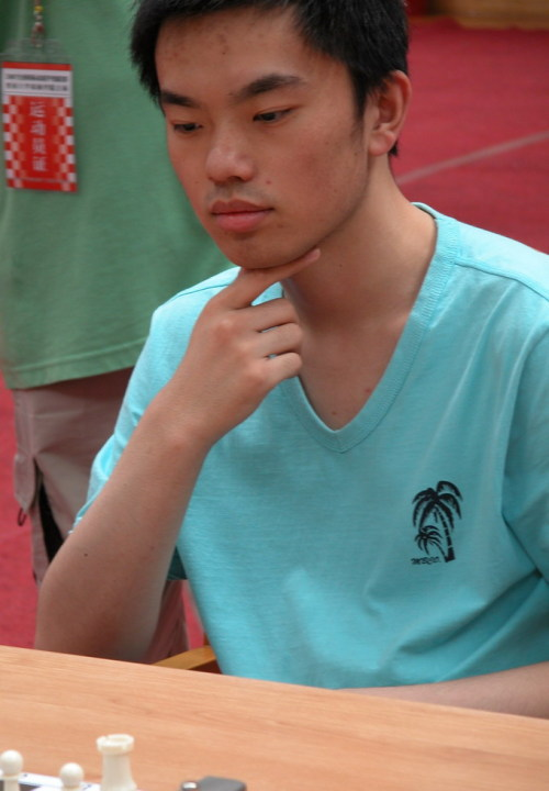 Zhou Jianchao, chess grandmaster from China